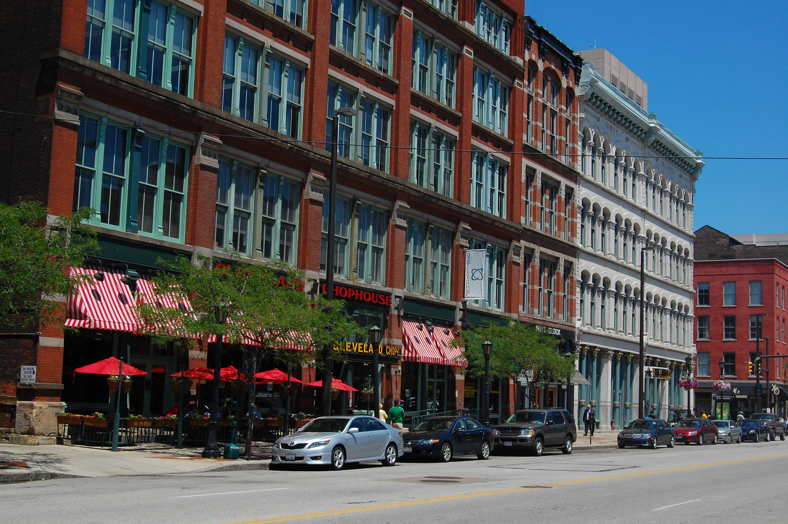 View of St. Clair Ave in the Warehouse District. Taken 06/07/2010.